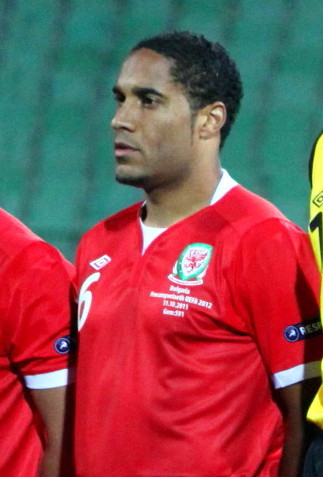 Wales national football team in 2011